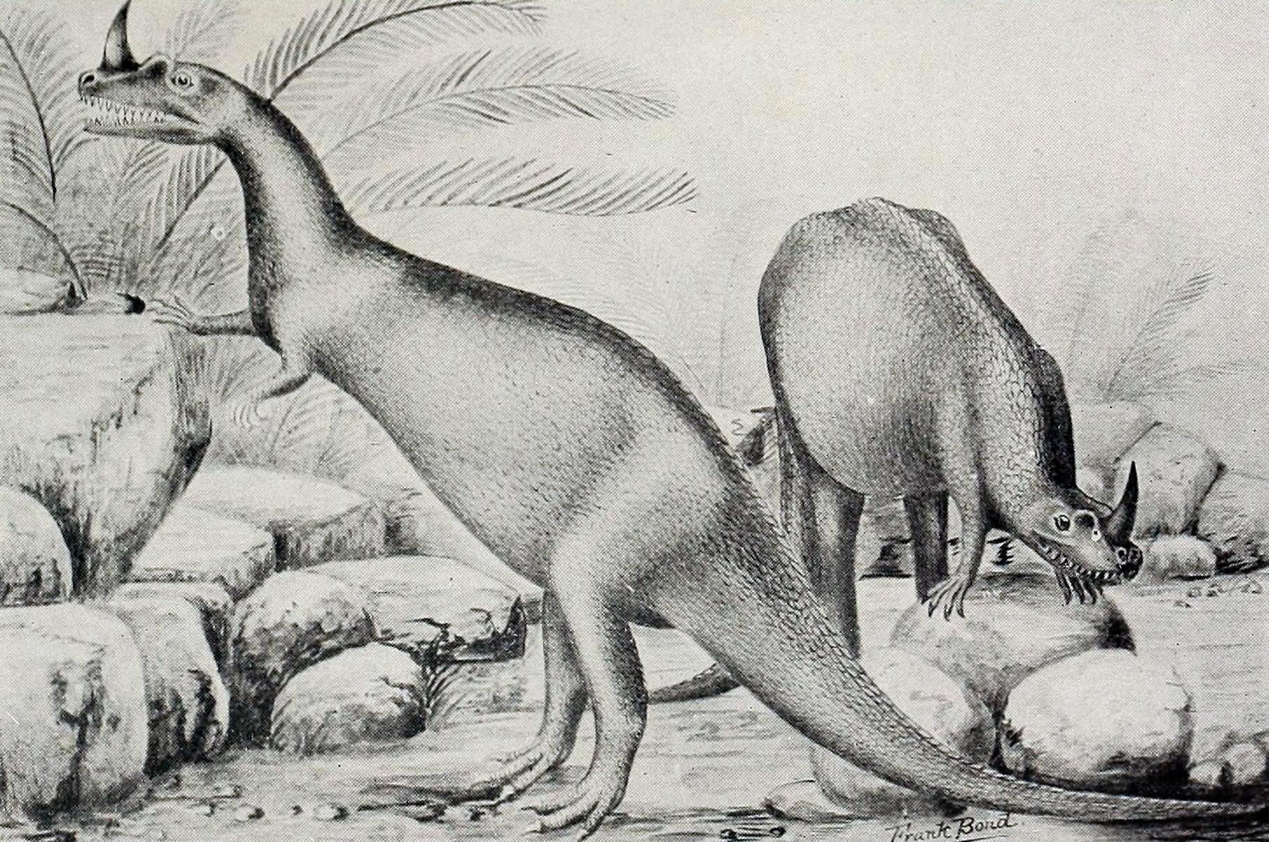 The probably first life restoration of Ceratosaurus. Drawn in 1899 by Frank Bond under the guidance of Charles R. Knight but not published until 1920. Osteology of the carnivorous Dinosauria in the United States National museum : with special reference to the genera Antrodemus (Allosaurus) and Ceratosaurus /